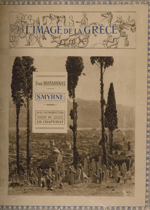 Frédéric Boissonnas. L’Image de la Grèce. Smyrne. Photographies de Edmond Boissonnas Introduction de Ed. Chapuisat, Geneva, Boissonnas, 1919